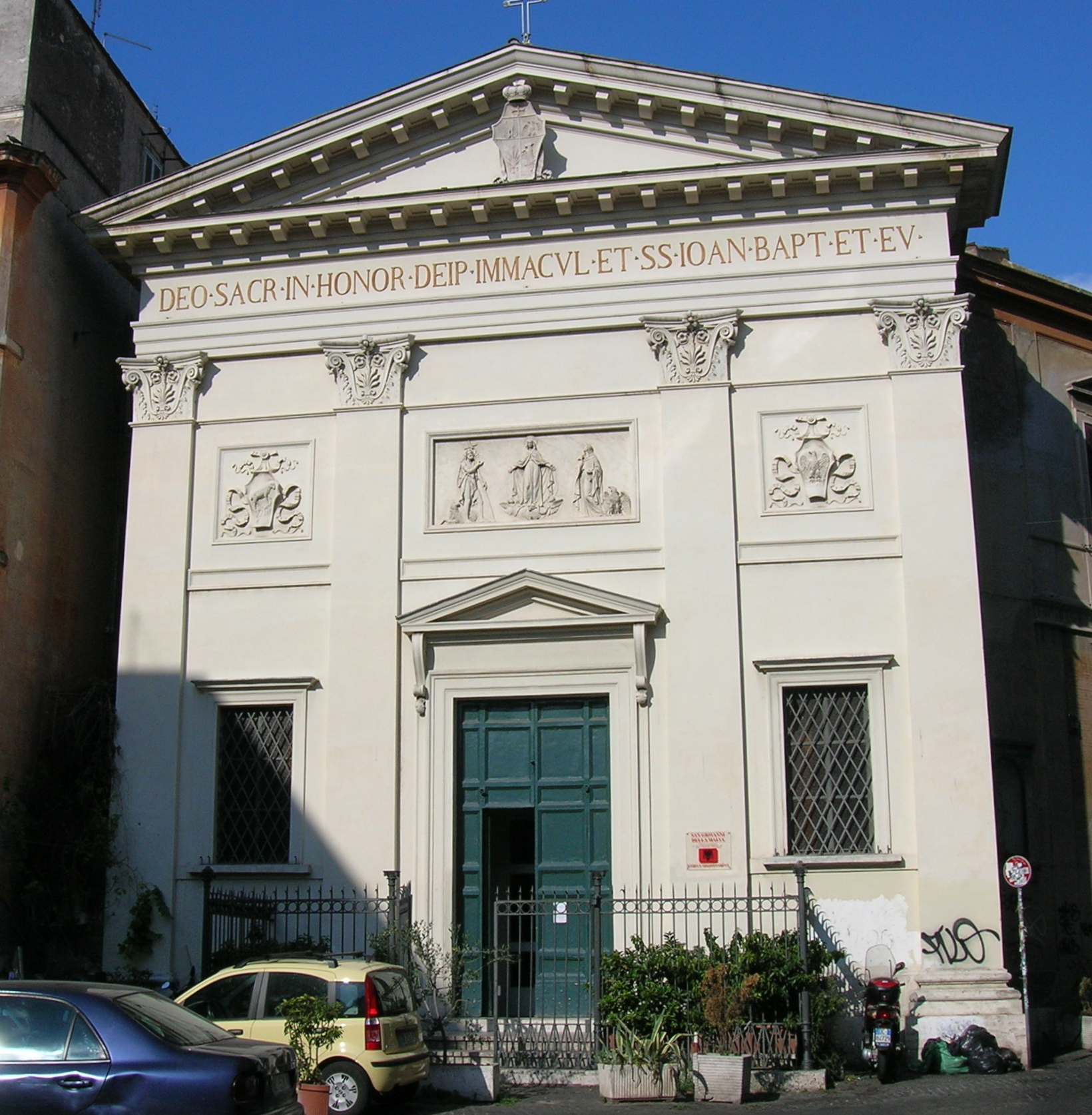 Church San Giovanni della Malva in Trastevere, Rome